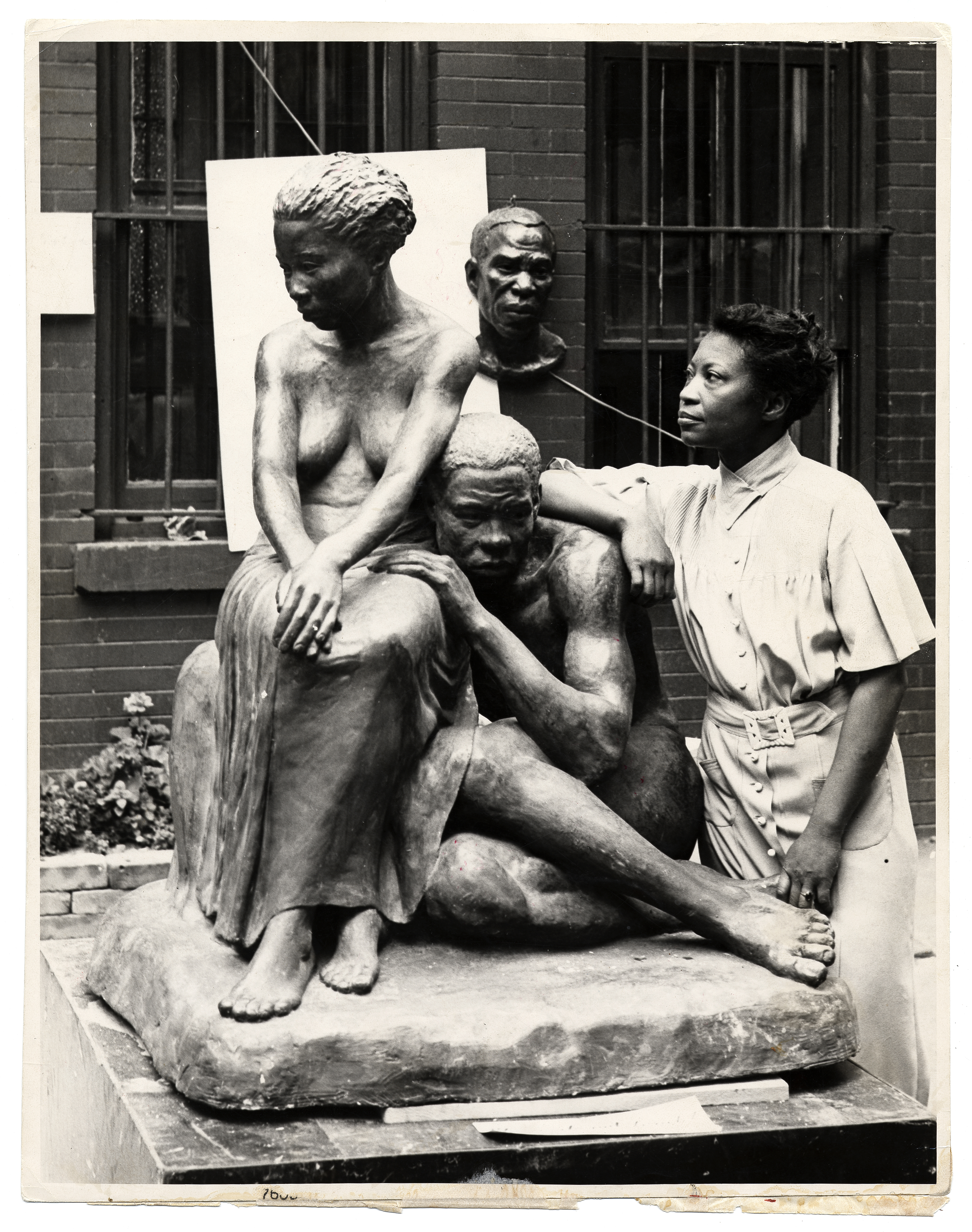 Augusta Savage posing with her sculpture Realization, created as part of the Works Progress Administration's Federal Art Project. Identification on verso (handwritten and stamped): Art Service Project; 137 E. 57th Street, New York City; Location: 137th St. and Edgecombe Ave.; DAte: 6/10; Negative No. 1060I; Photographer: Herman.Identification on accompanying note (typewritten): Augusta Savage